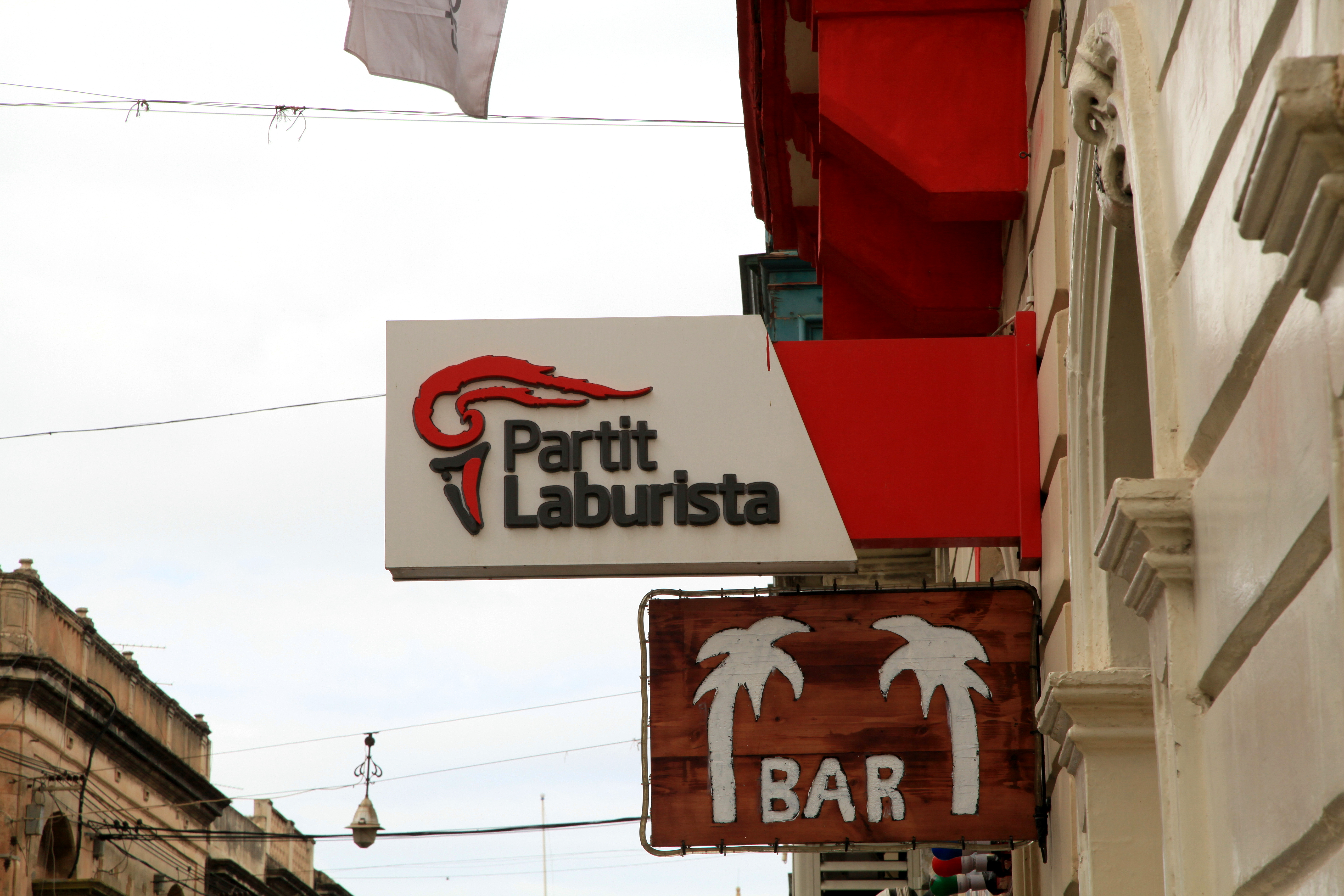 Triq il-Kungress Ewkaristiku in Mosta, Malta